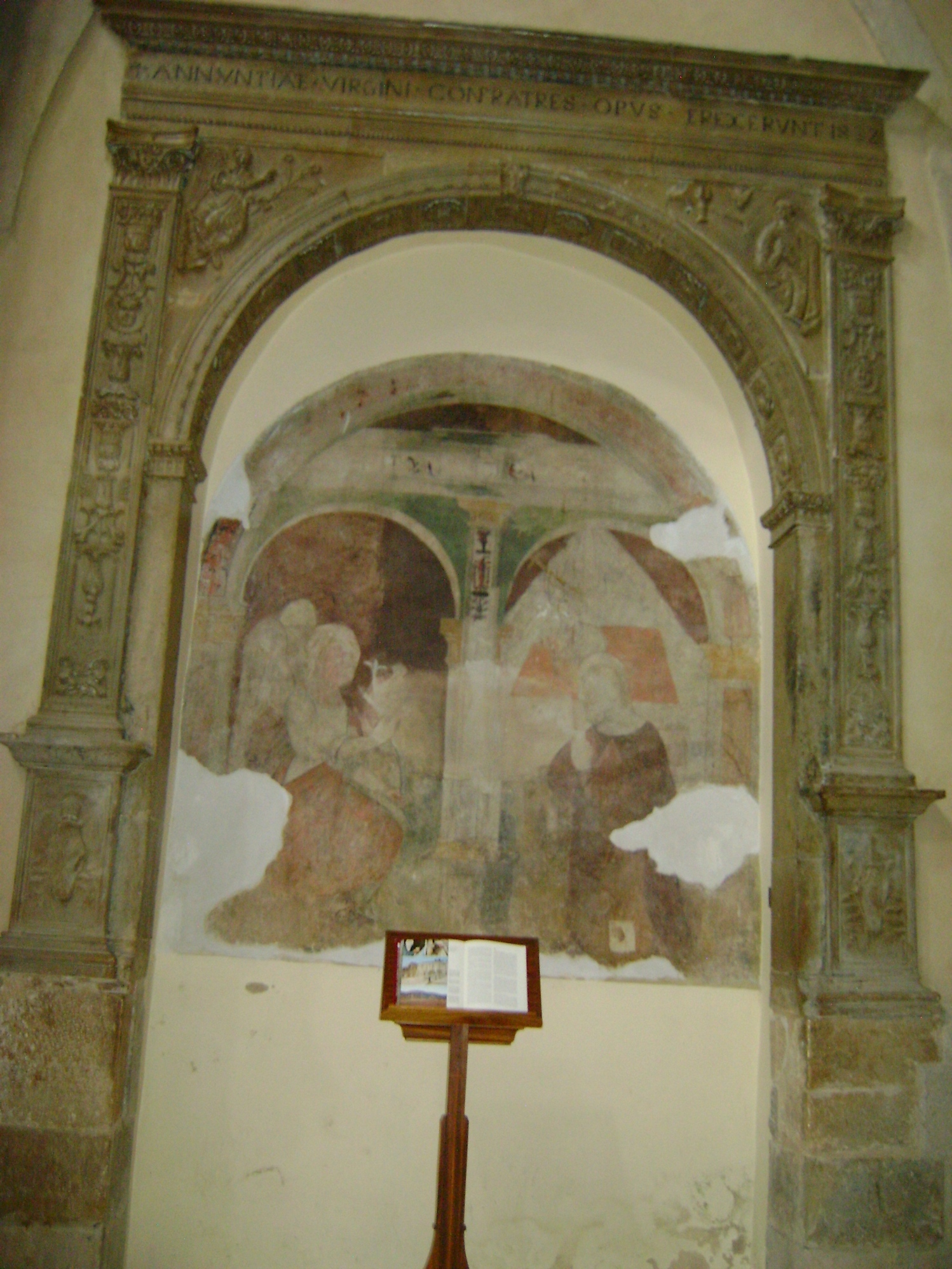 The fresco of the Annunciation in the cathedral of Larino, in the province of Campobasso, Molise